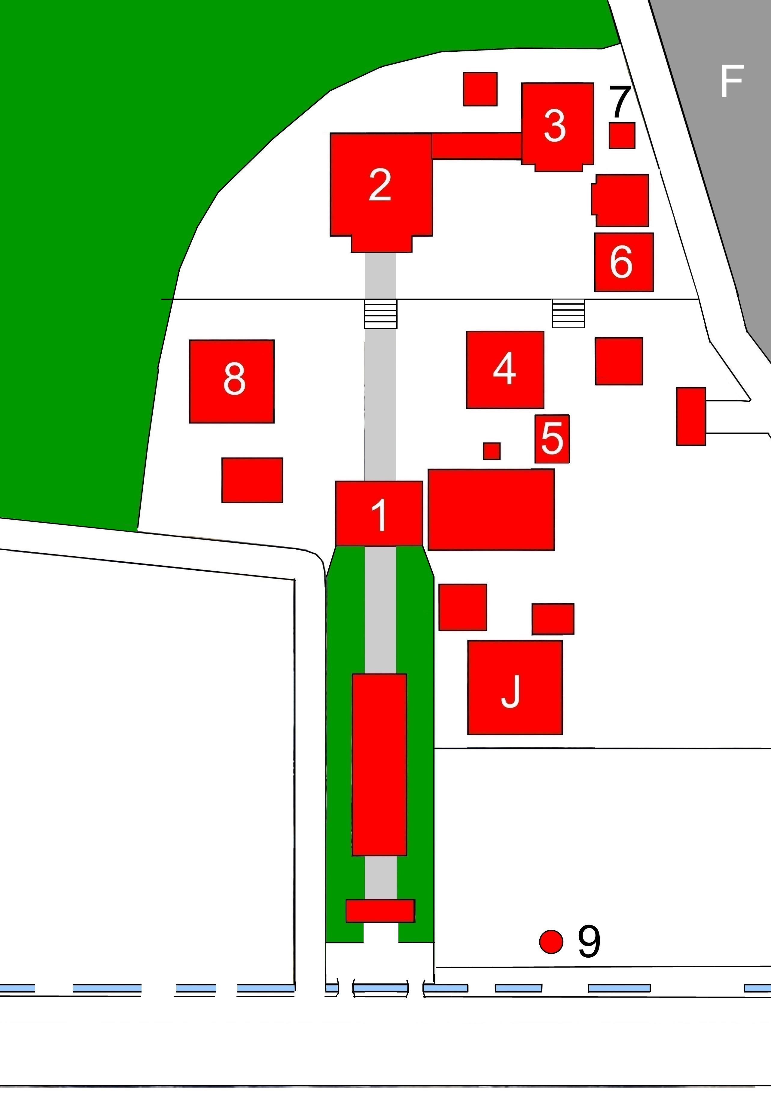 Layout of Ishiteji temple at Matsuyama, Japan